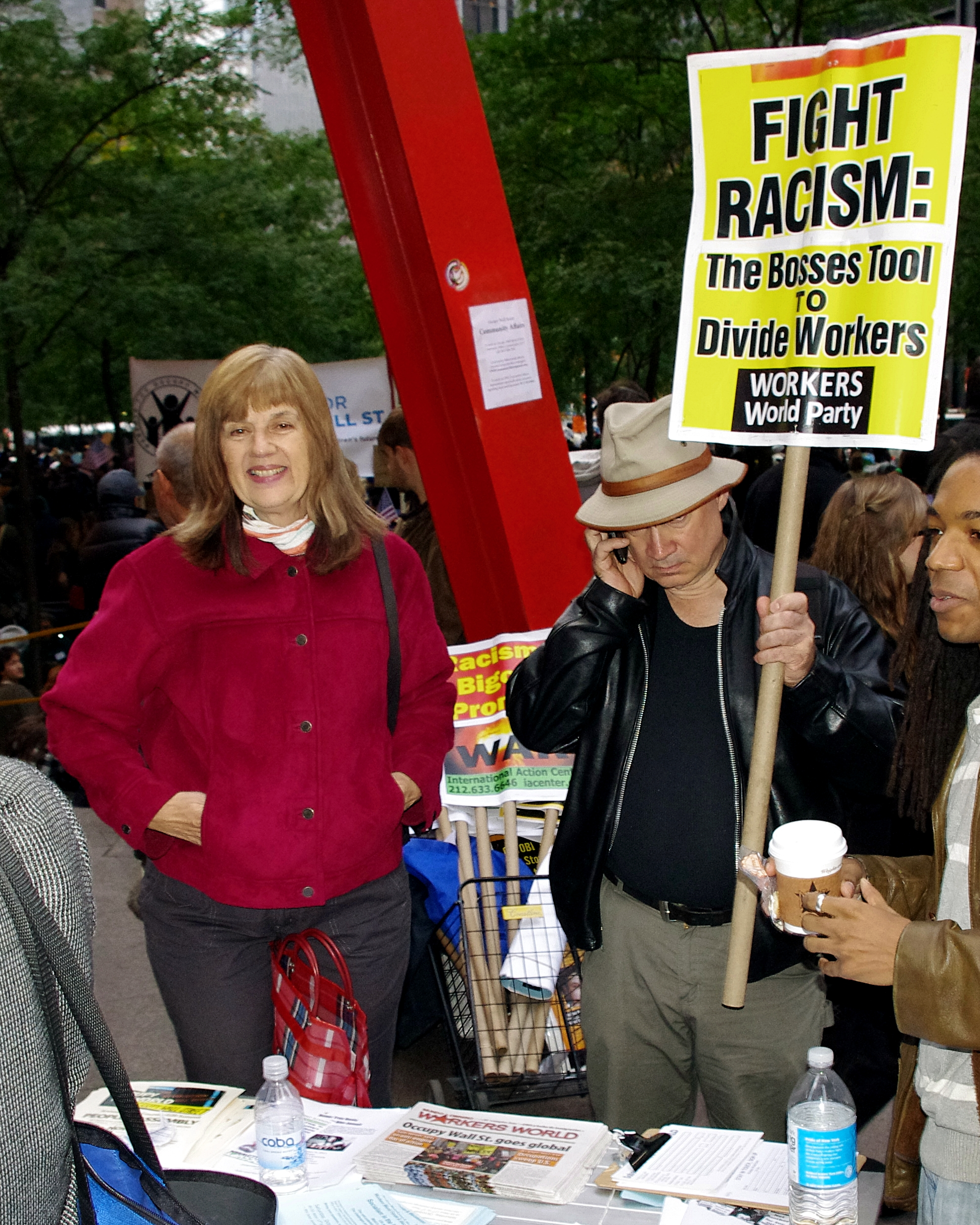 Photos from around Zuccotti Park on Day 36 of Occupy Wall Street in New York, Friday, October 21.